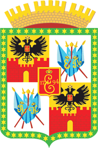 Krasnodar (Krasnodar krai), coat of arms (1999)